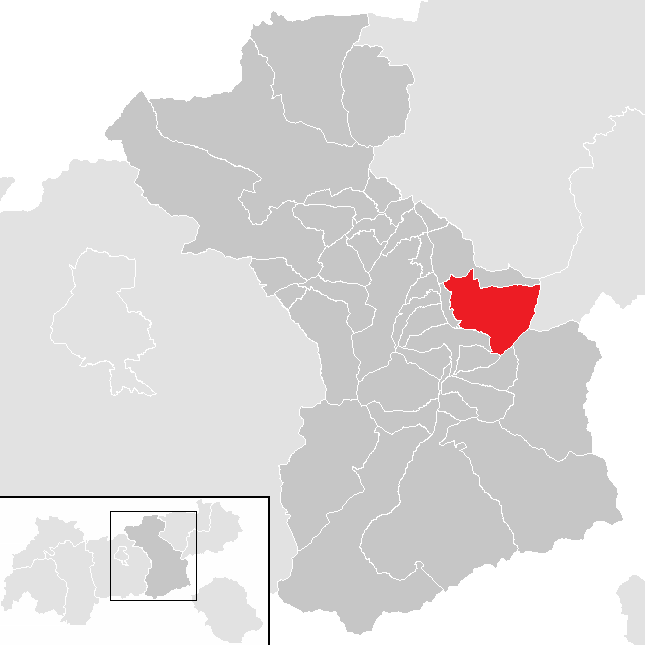 District Schwaz